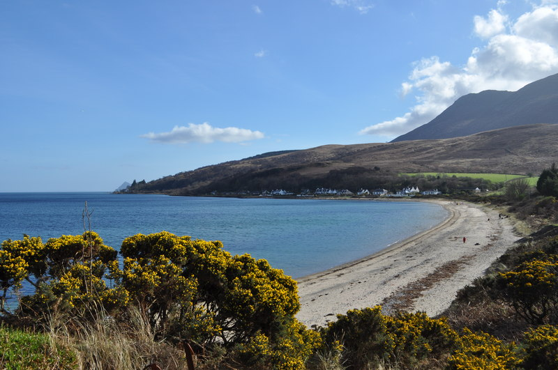 Sannox Bay, near to Sannox, North Ayrshire, Great Britain. One of the best beaches on the island, taken during the 2011 April mini heatwave when tempertaures here beat Athens in Greece.